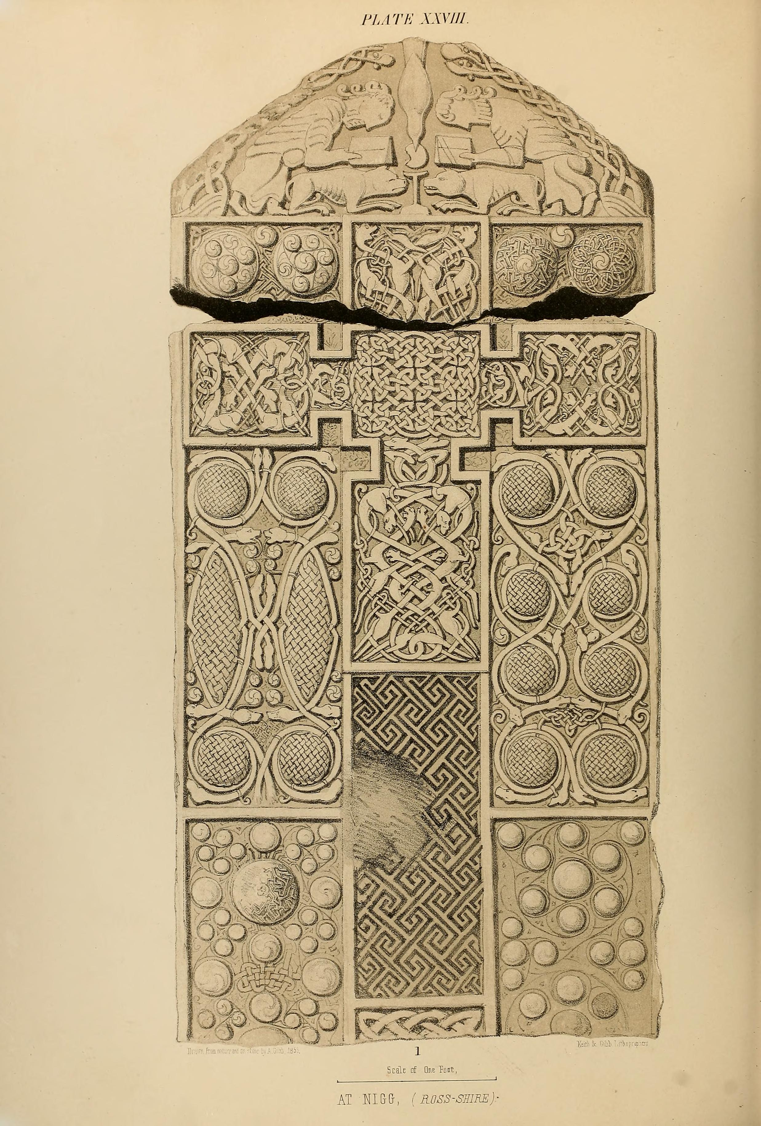 pictish Stone of Nigg, cross side